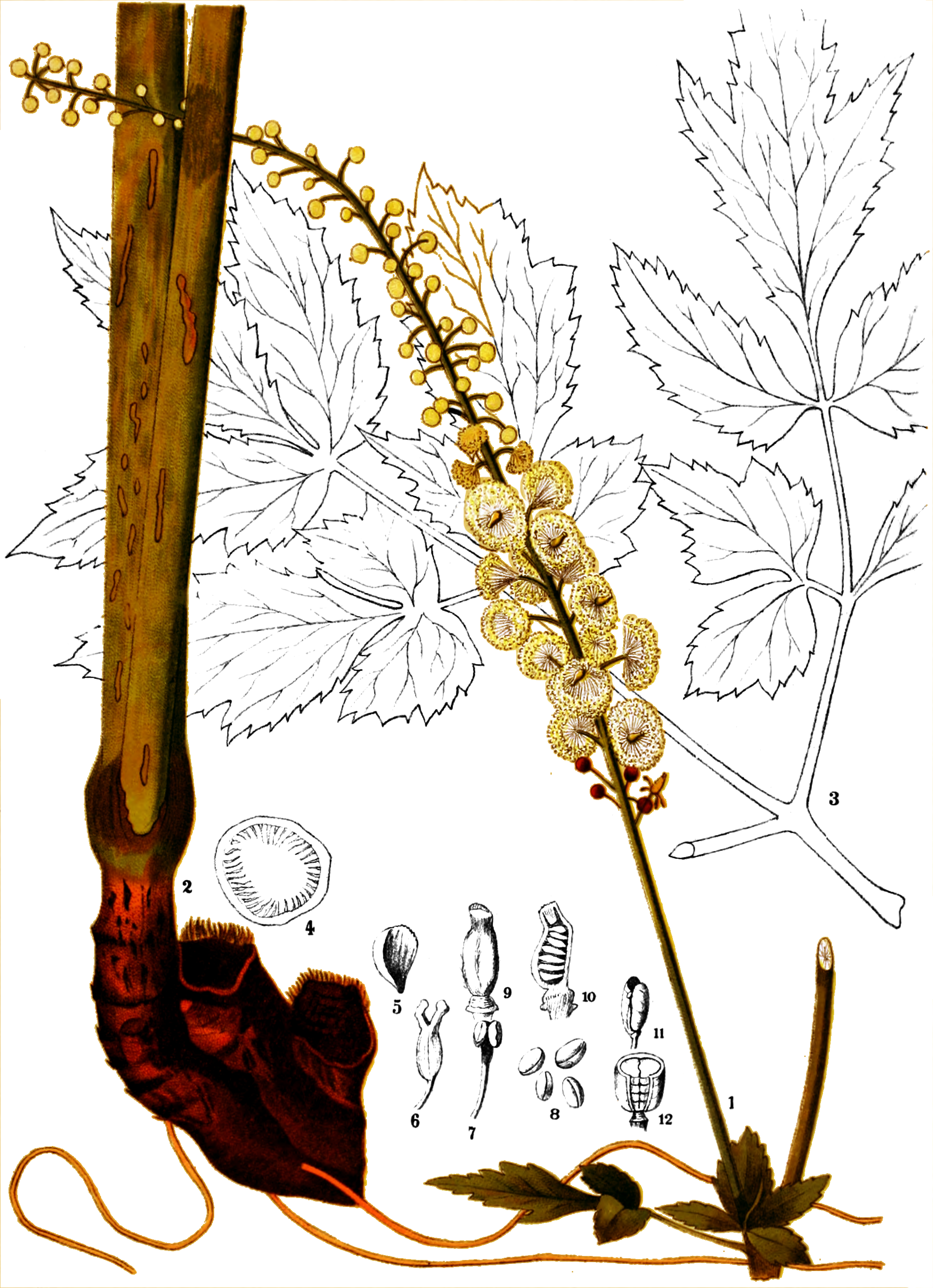 Plate 11, Cimicifuca racemosa (Actaea racemosa) From American Medical Plants 1887. Edited from the original, plant image has been masked so that plant could be color corrected independent of paper.